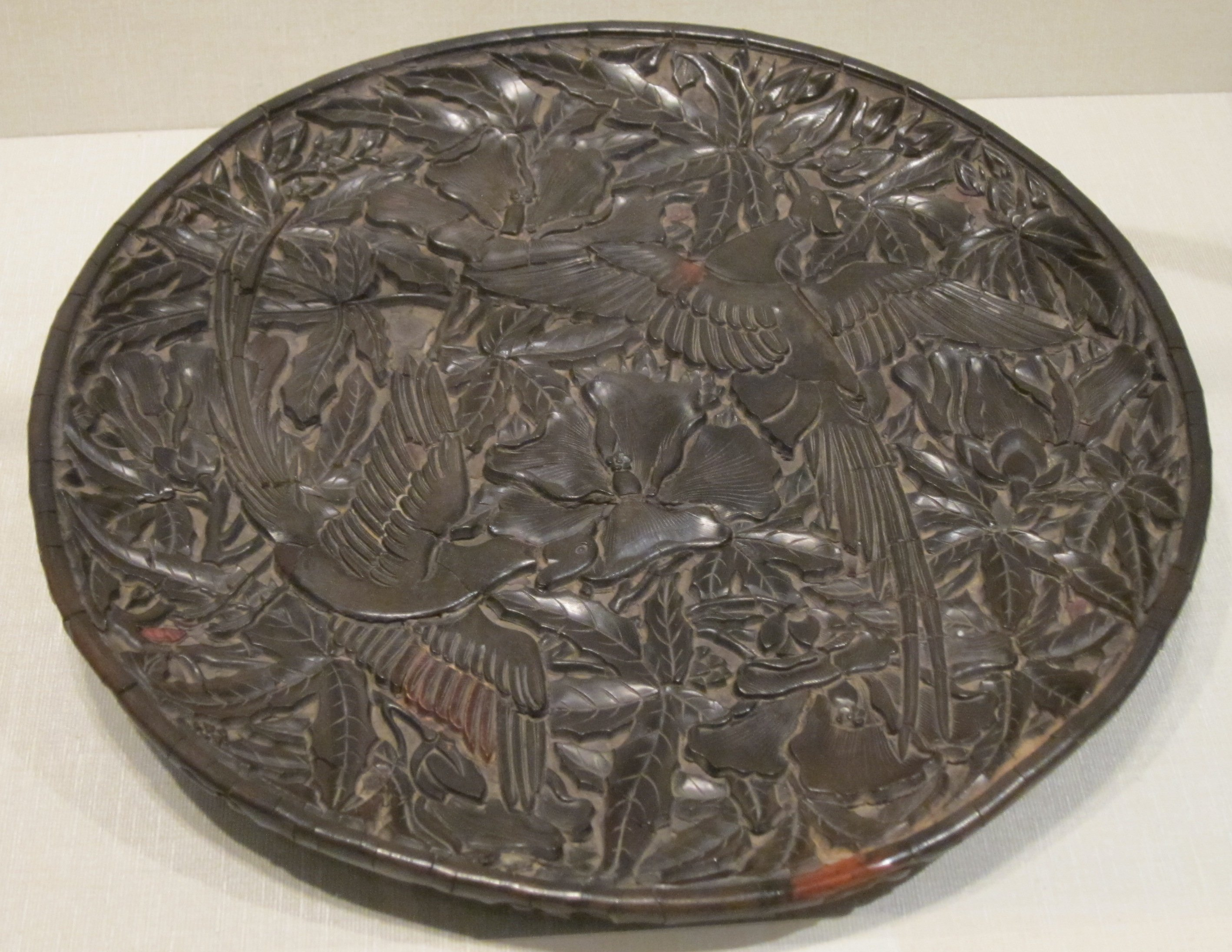 Chinese carved lacquer tray, Yuan dynasty (1260-1368), Honolulu Academy of Arts